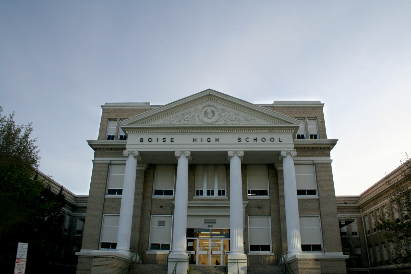 The front of Boise High School, taken in the morning. Boise, Idaho